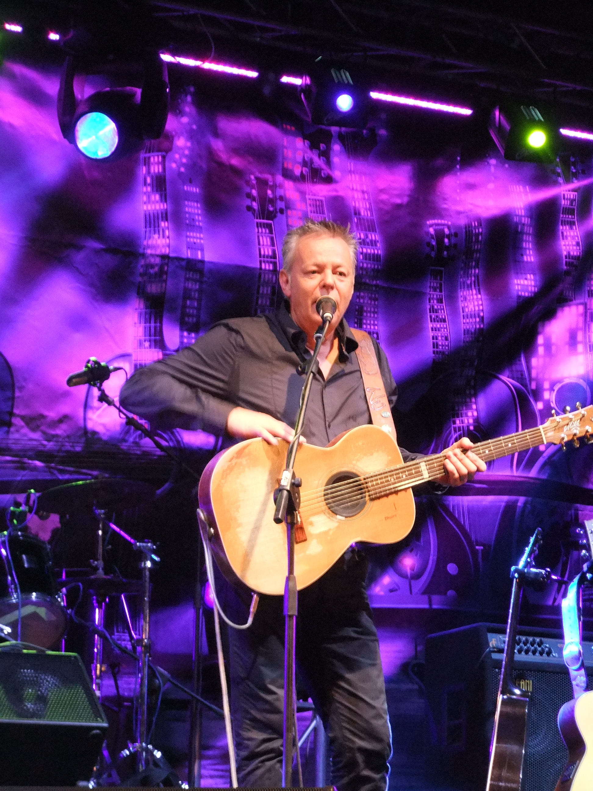 Tommy Emmanuel performs at Soave Guitar Festival May 2, 2010